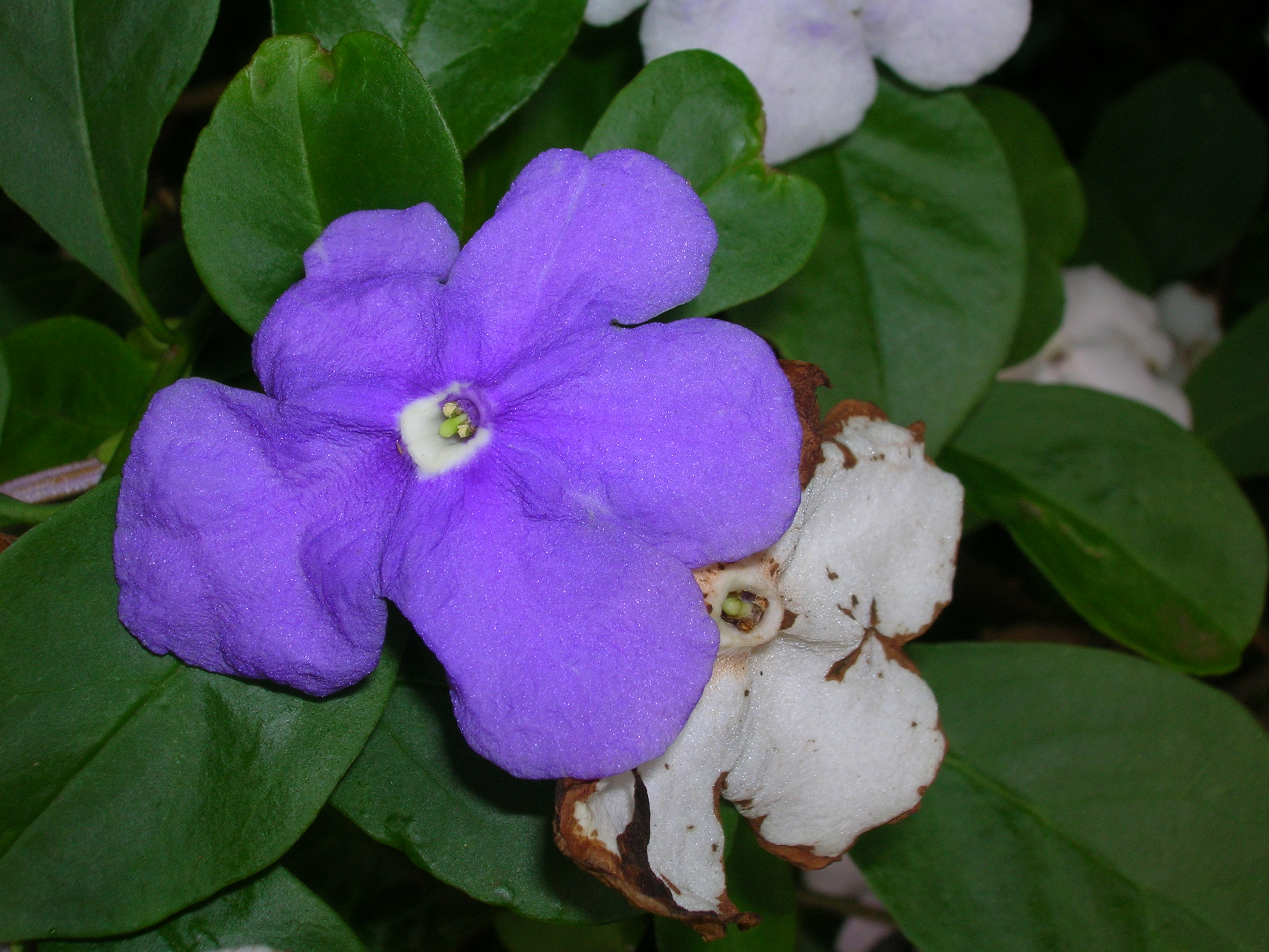 Brunfelsia australis (flowers). Location: Maui, Ulupalakua